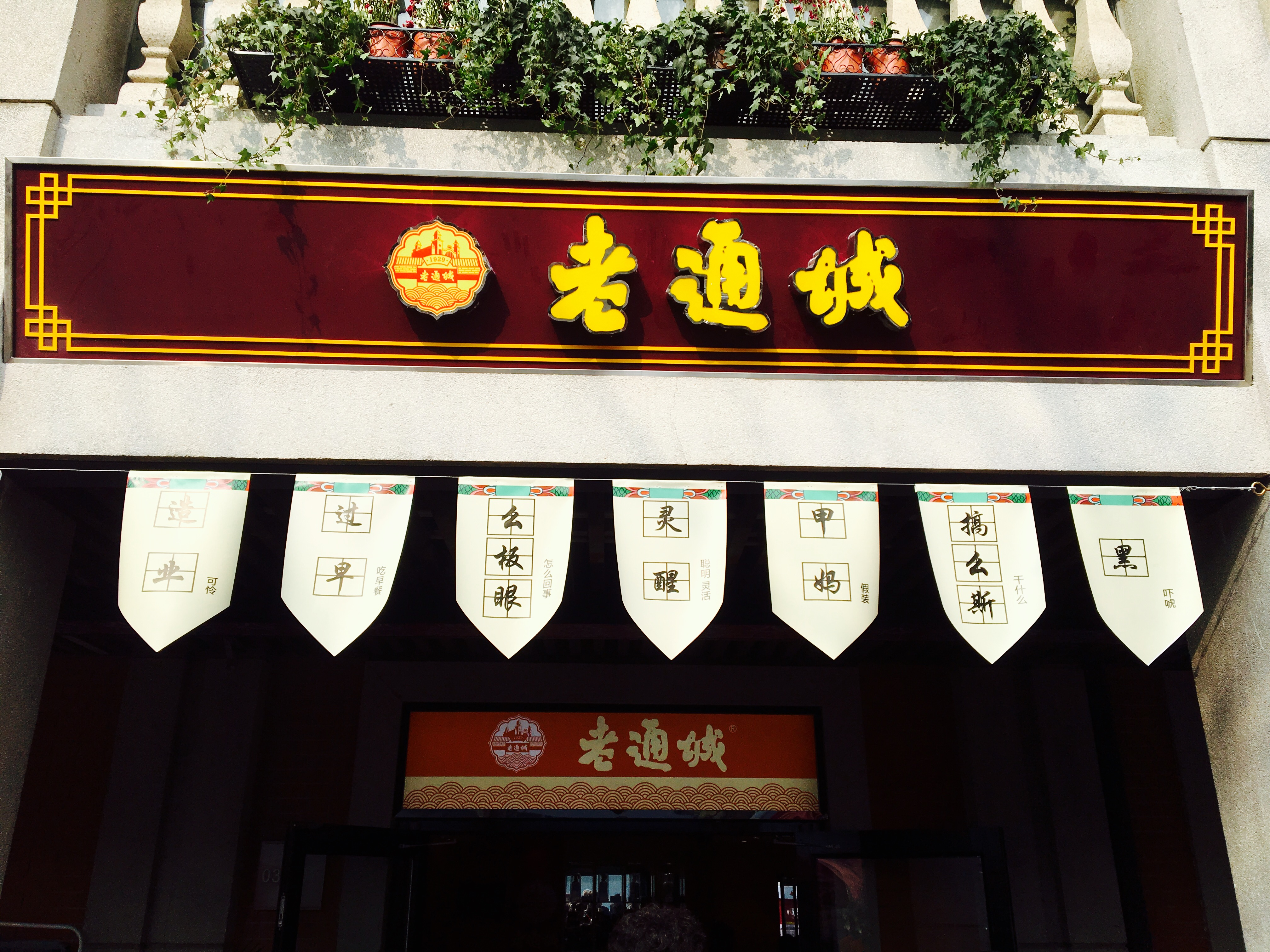 Laotongcheng on Zhongshan Avenue